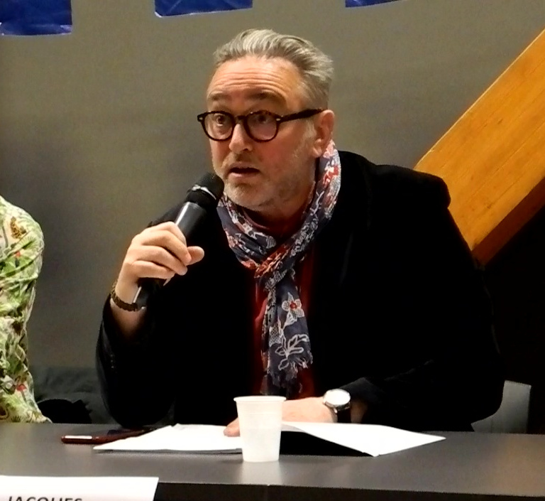 Personality rights warningAlthough this work is freely licensed or in the public domain, the person(s) shown may have rights that legally restrict certain re-uses unless those depicted consent to such uses. In these cases, a model release or other evidence of consent could protect you from infringement claims.